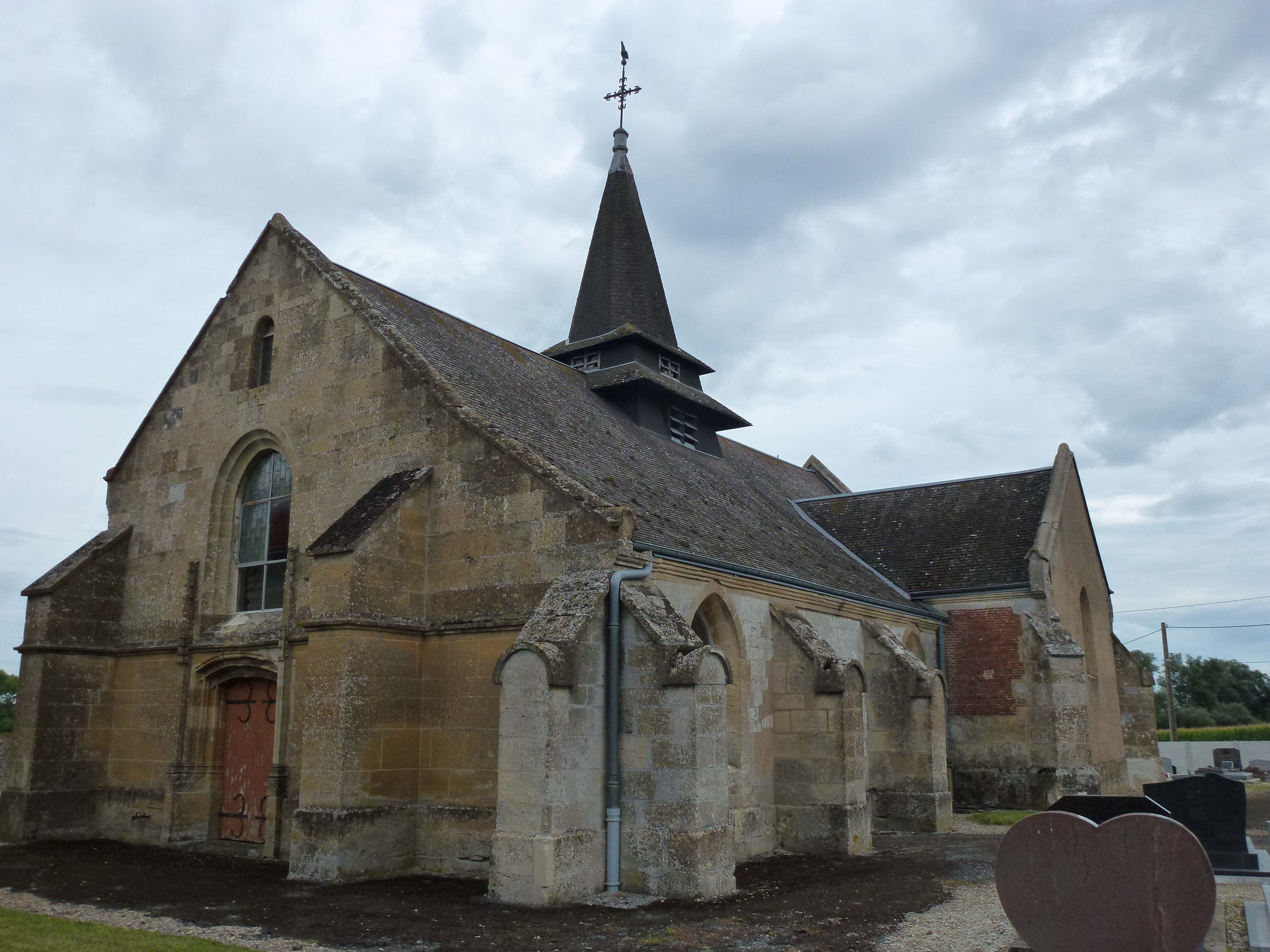 Ambly-Fleury (Ardennes) église